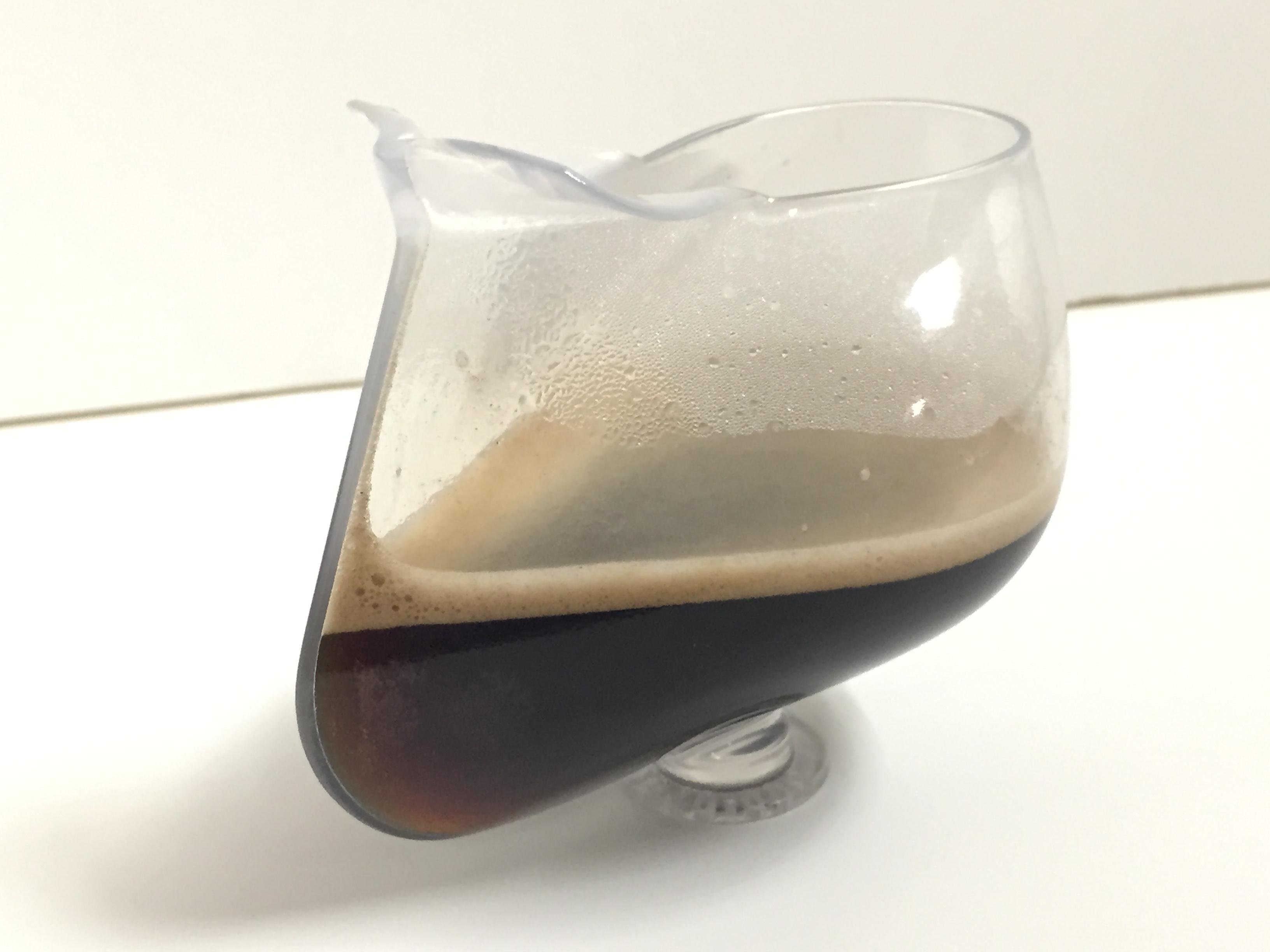 In today's A Lab Aloft blog, @space_station ISSpresso cups: not your average cup o' java: …